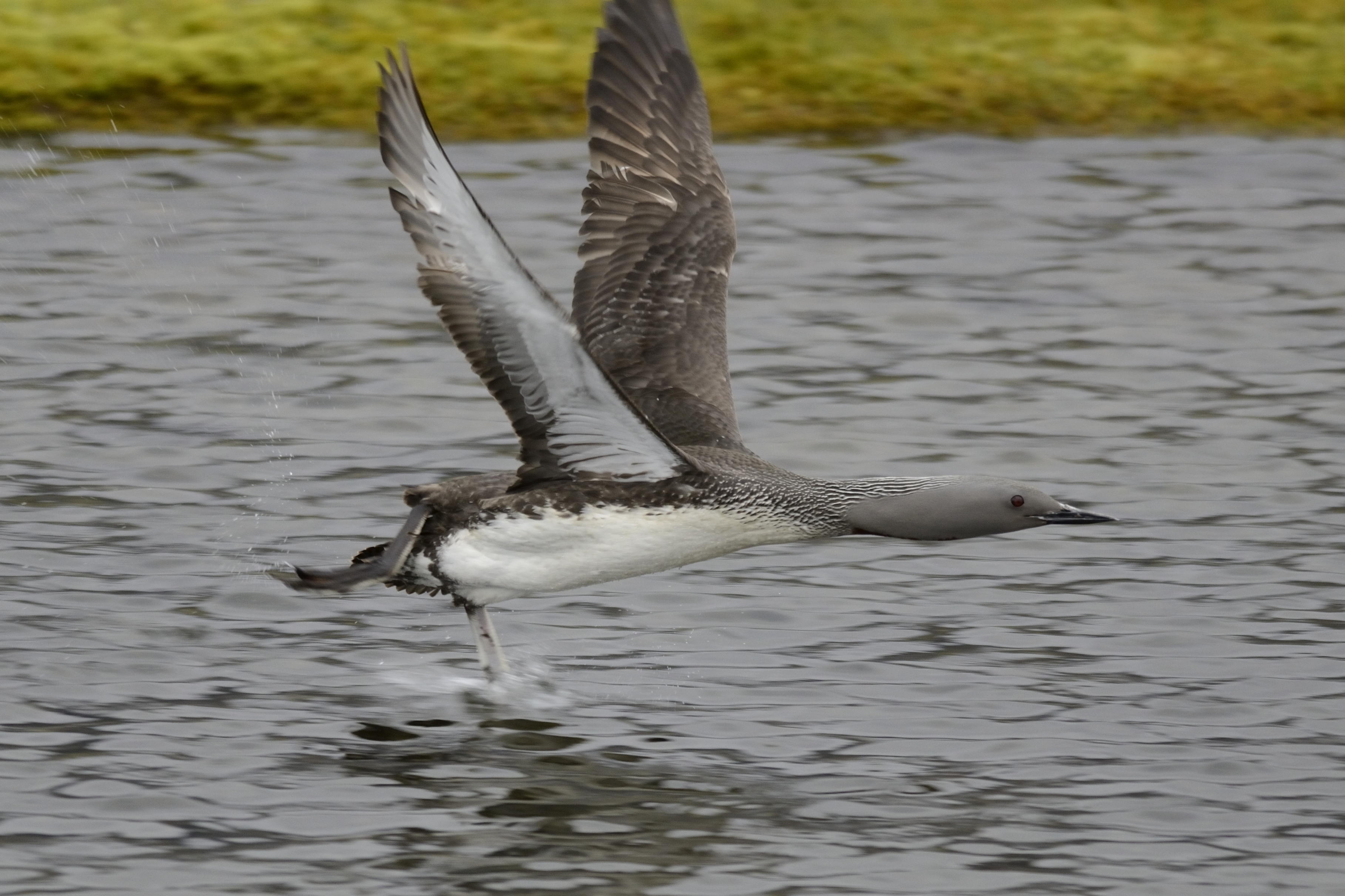 A Red-throated Loon taking off in Iceland